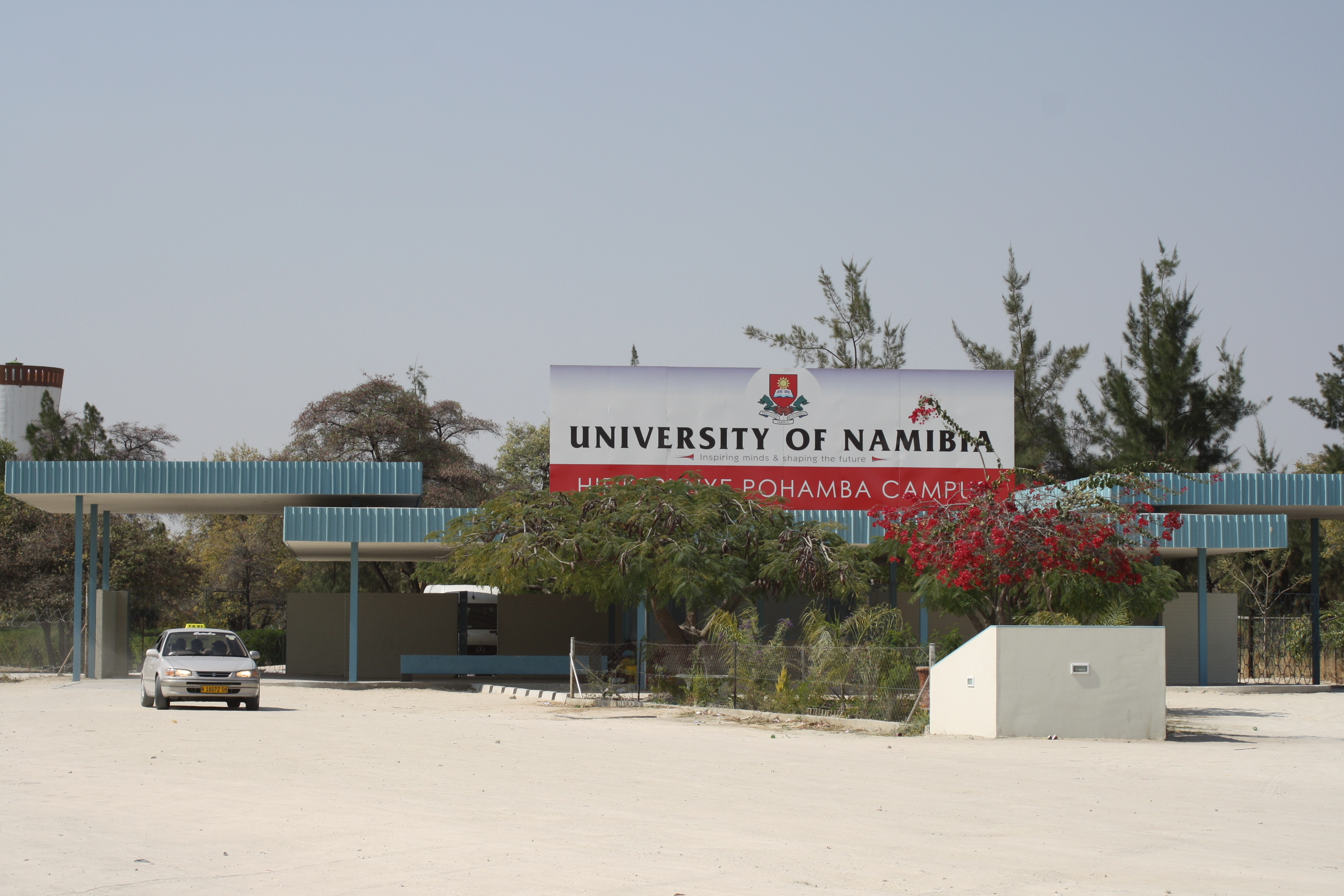 Entrance of Hifikepunye Pohamba campus of University of Namibia in Ongwediva, Namibia